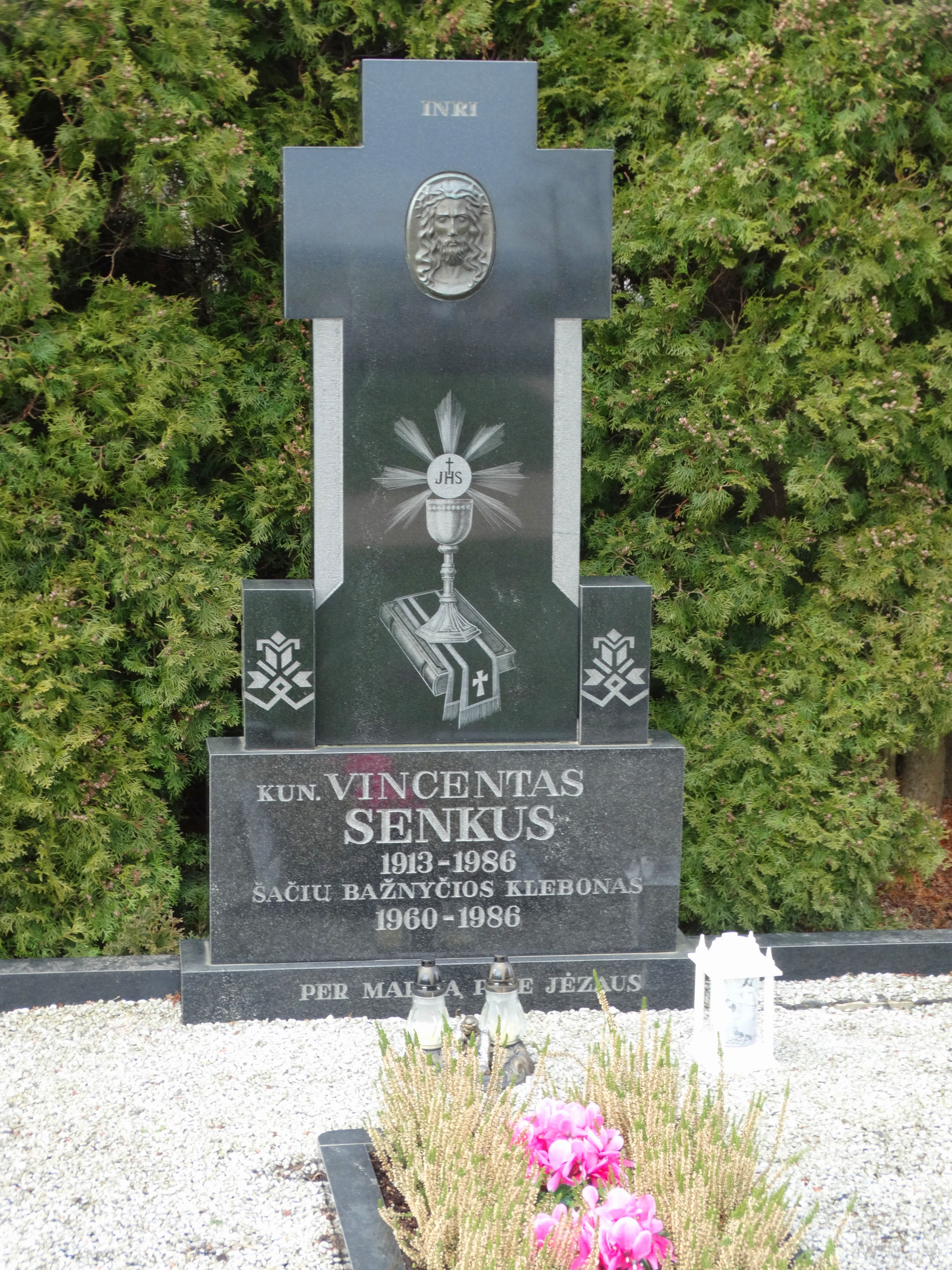 Vincentas_Senkus_(1913-1986), grave, Šatės, Skuodas District, Lithuania